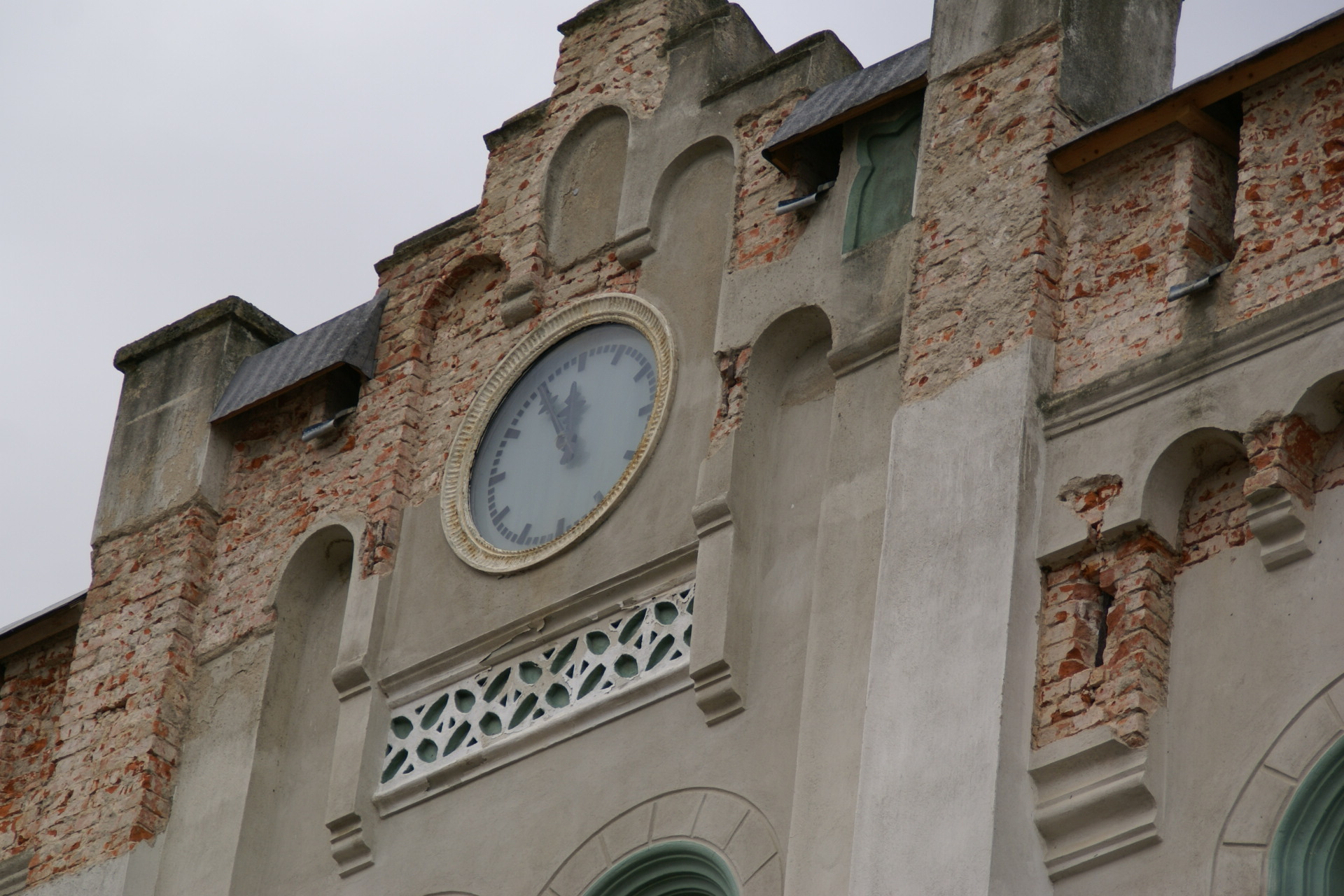 Clock at the former Hauptwache (Police Headquarters) at the Market Square in Wismar, Germany